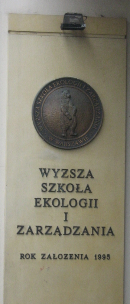 University of Ecology and Management in Warsaw